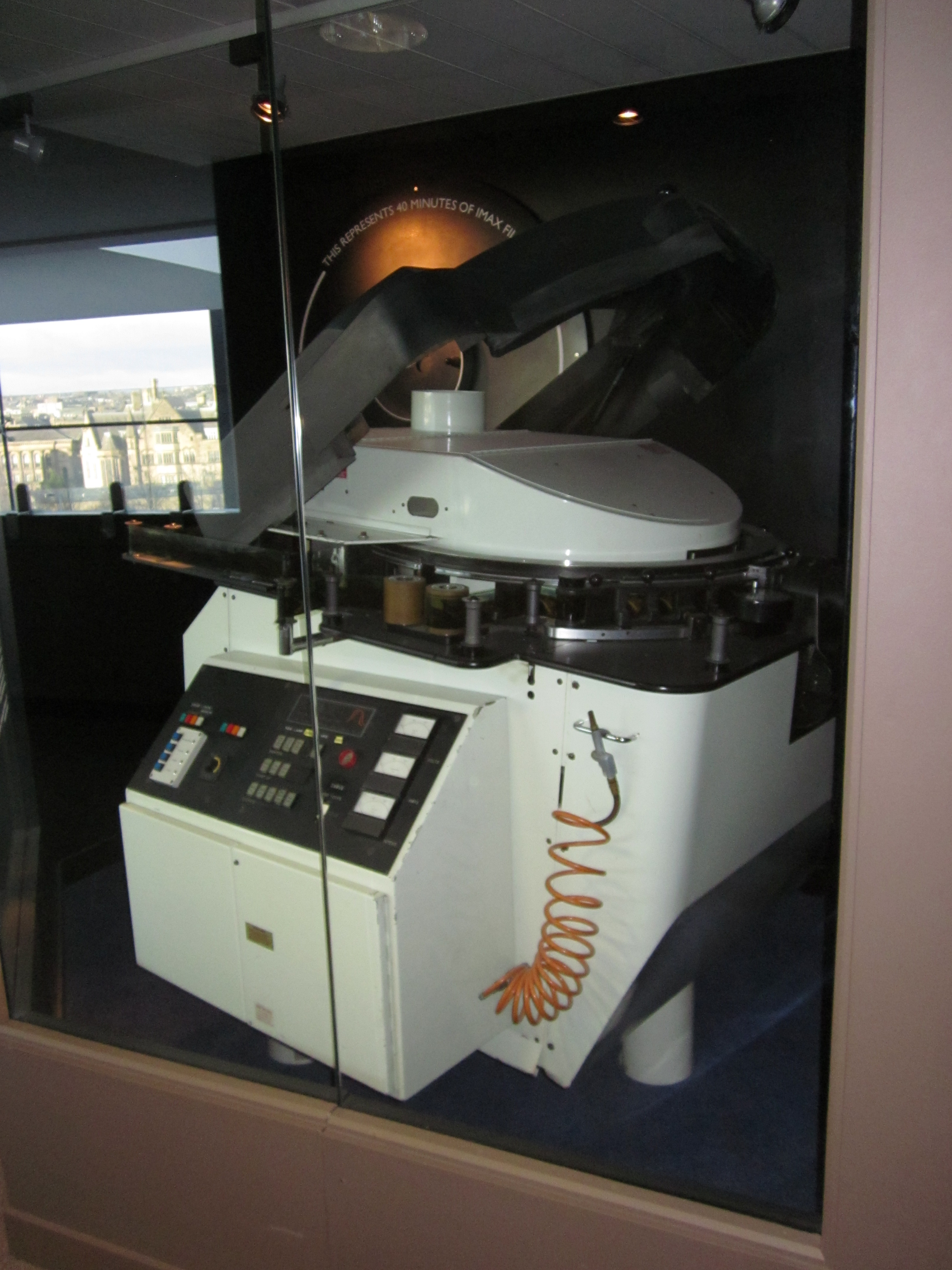 IMAX film projector at the National Media Museum, Bradford. Showing the way the film runs horizontally.